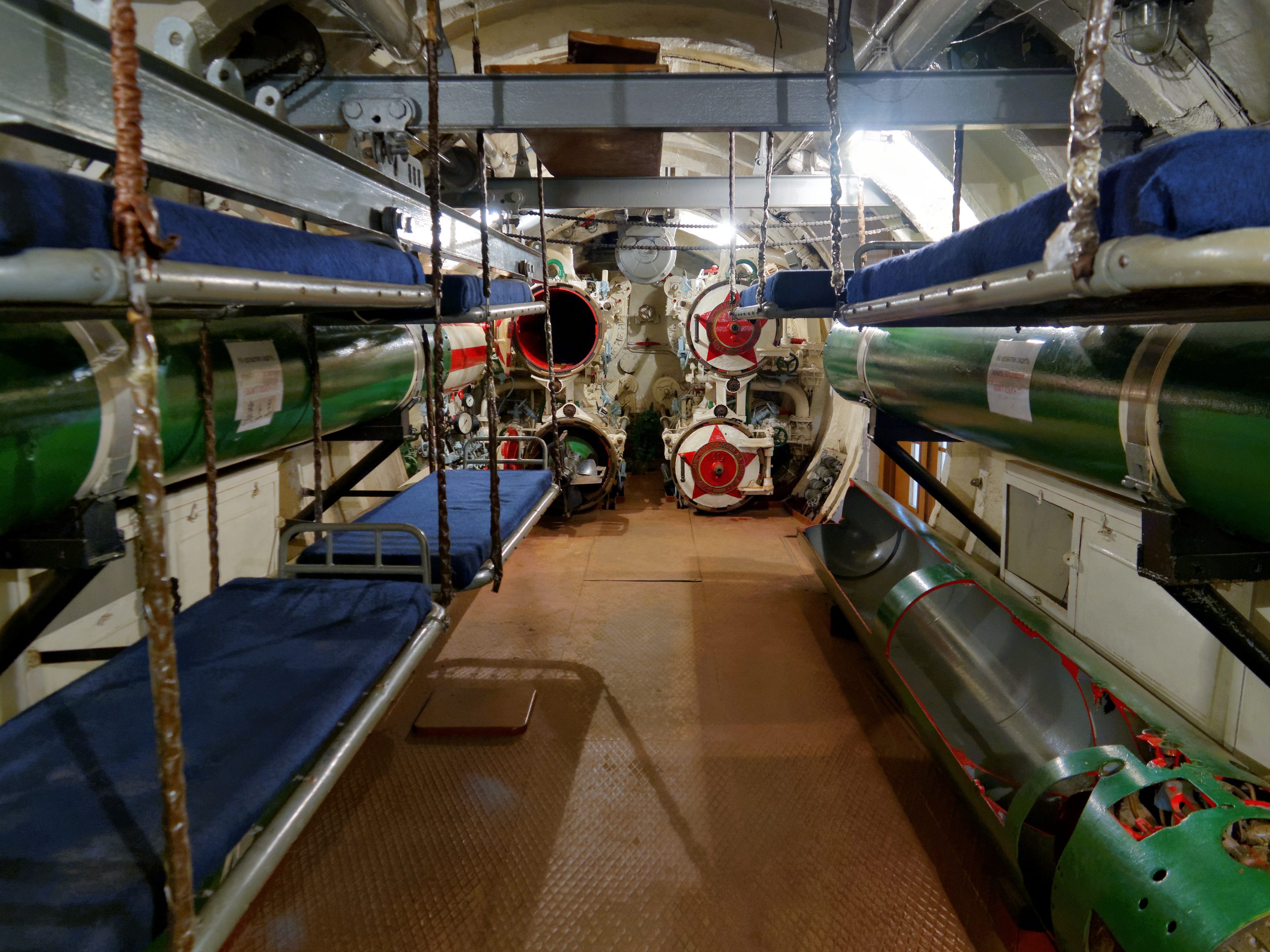 Vladivostok. Submarine S-56. Forward torpedo room